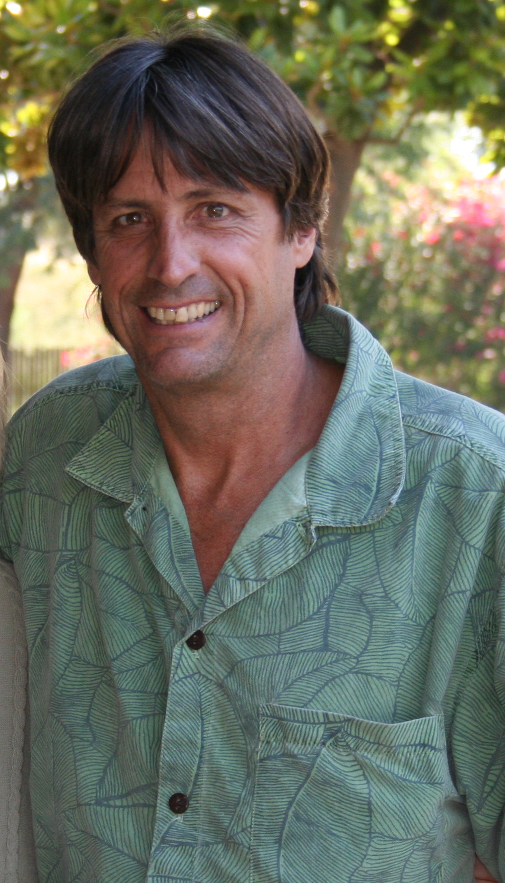 Ford Greene is an American attorney living in San Anselmo, California, noted for having successfully conducted litigation against alleged cults, and in 2009, against an unconstitutional Marin County election. He is an elected San Anselmo Town Councilman.